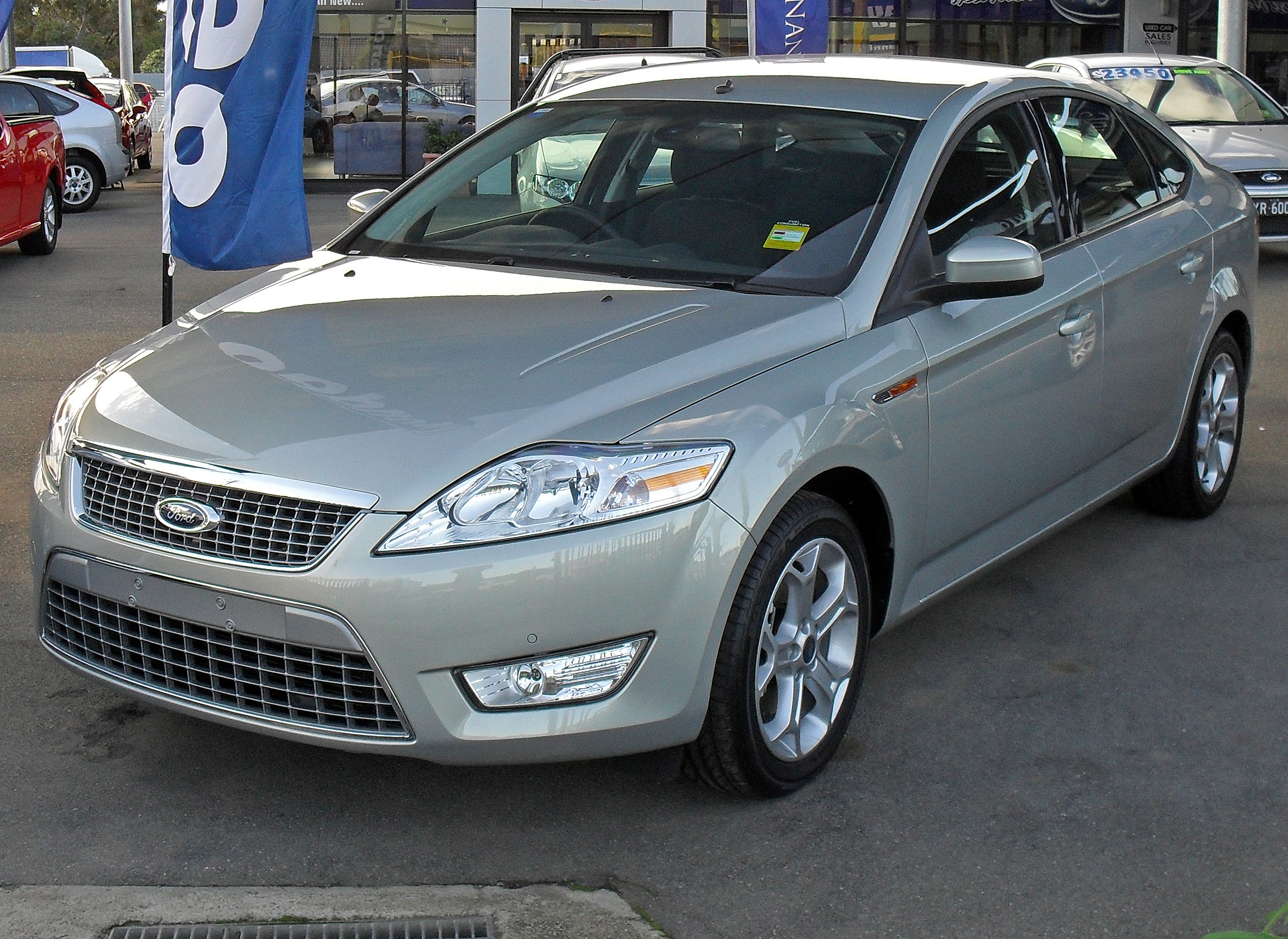 Ford Mondeo Mk4 photographed in Australia.